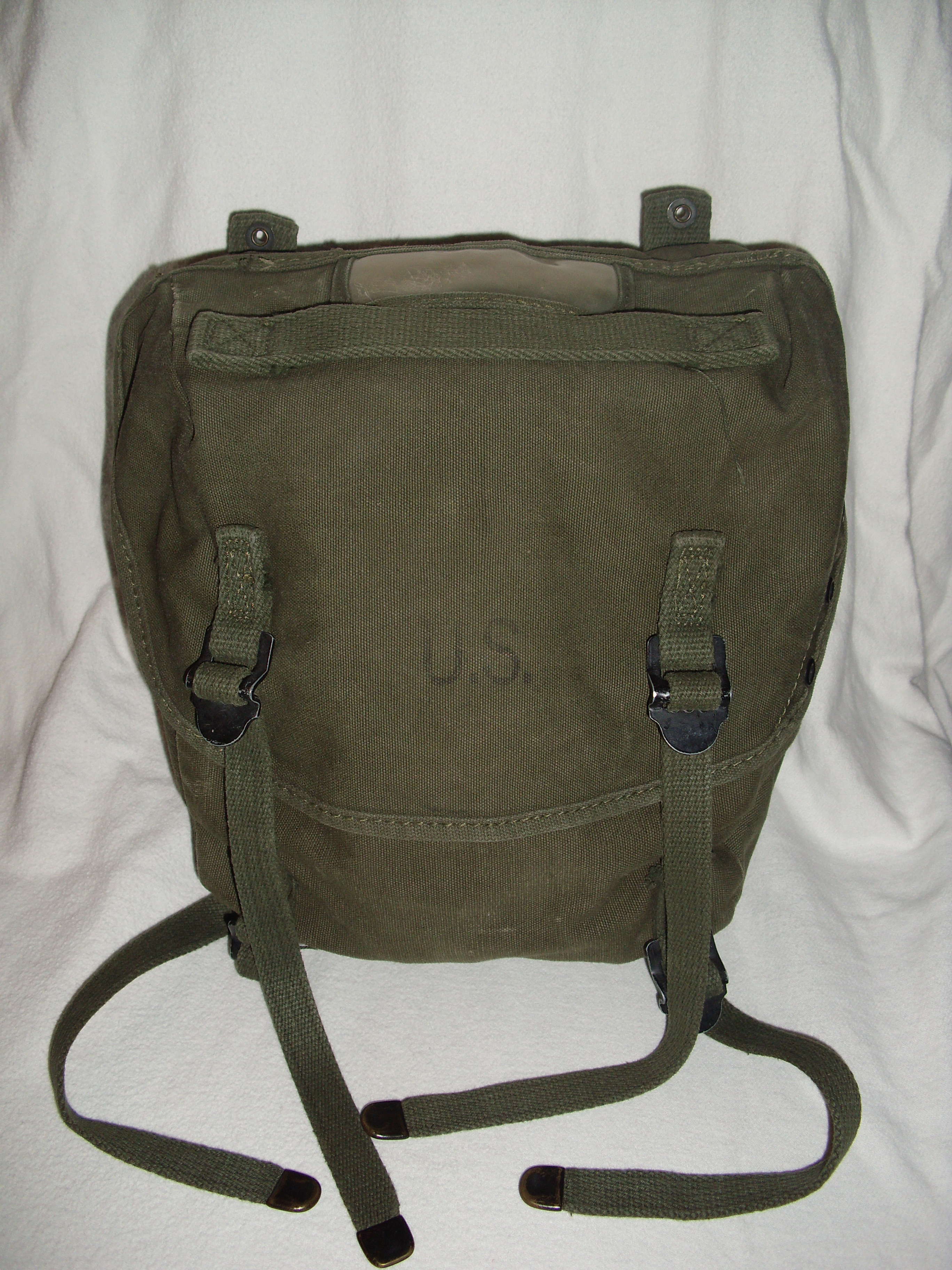 Pack, field M1961